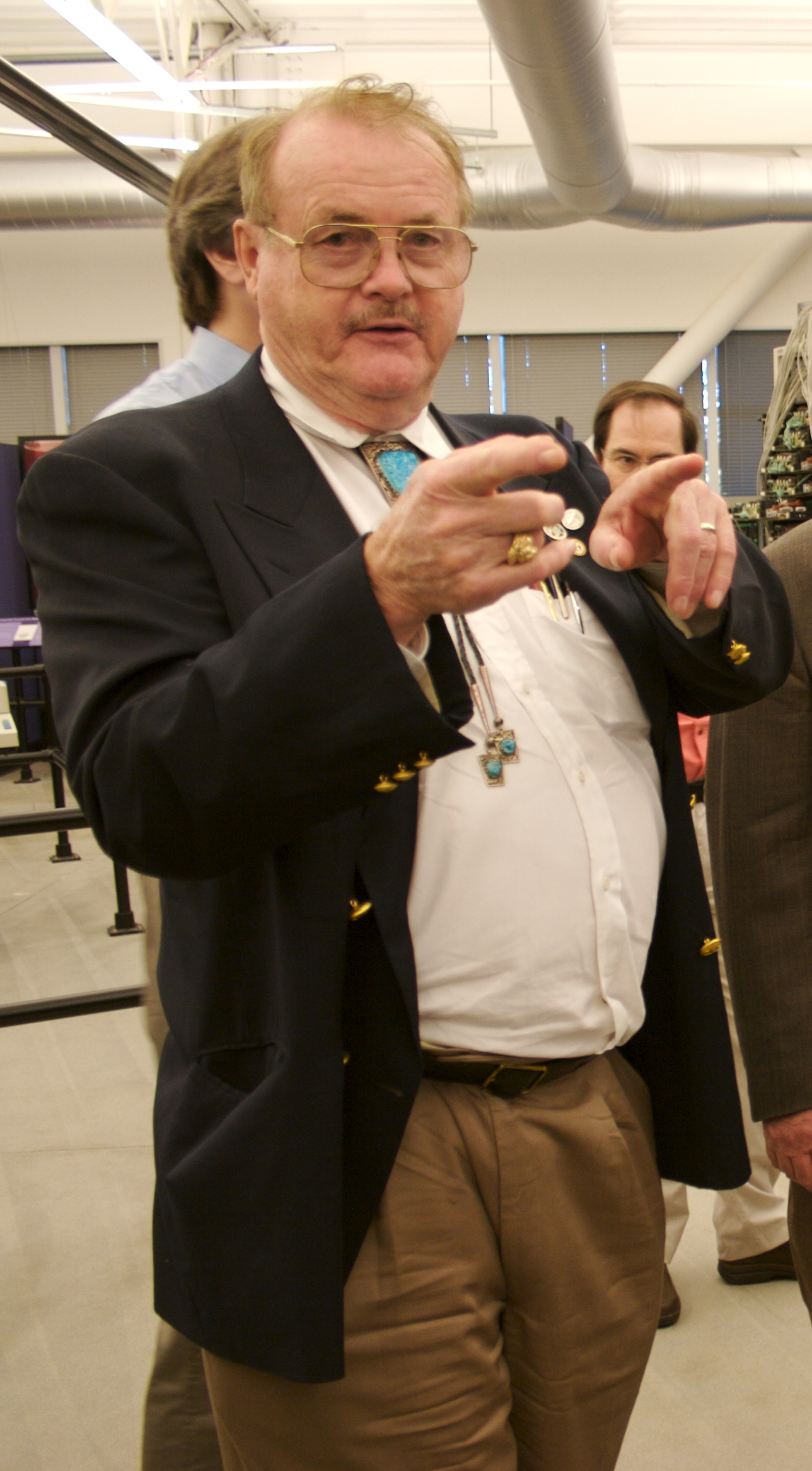 Jerry Pournelle, an American essayist, journalist and science fiction author.